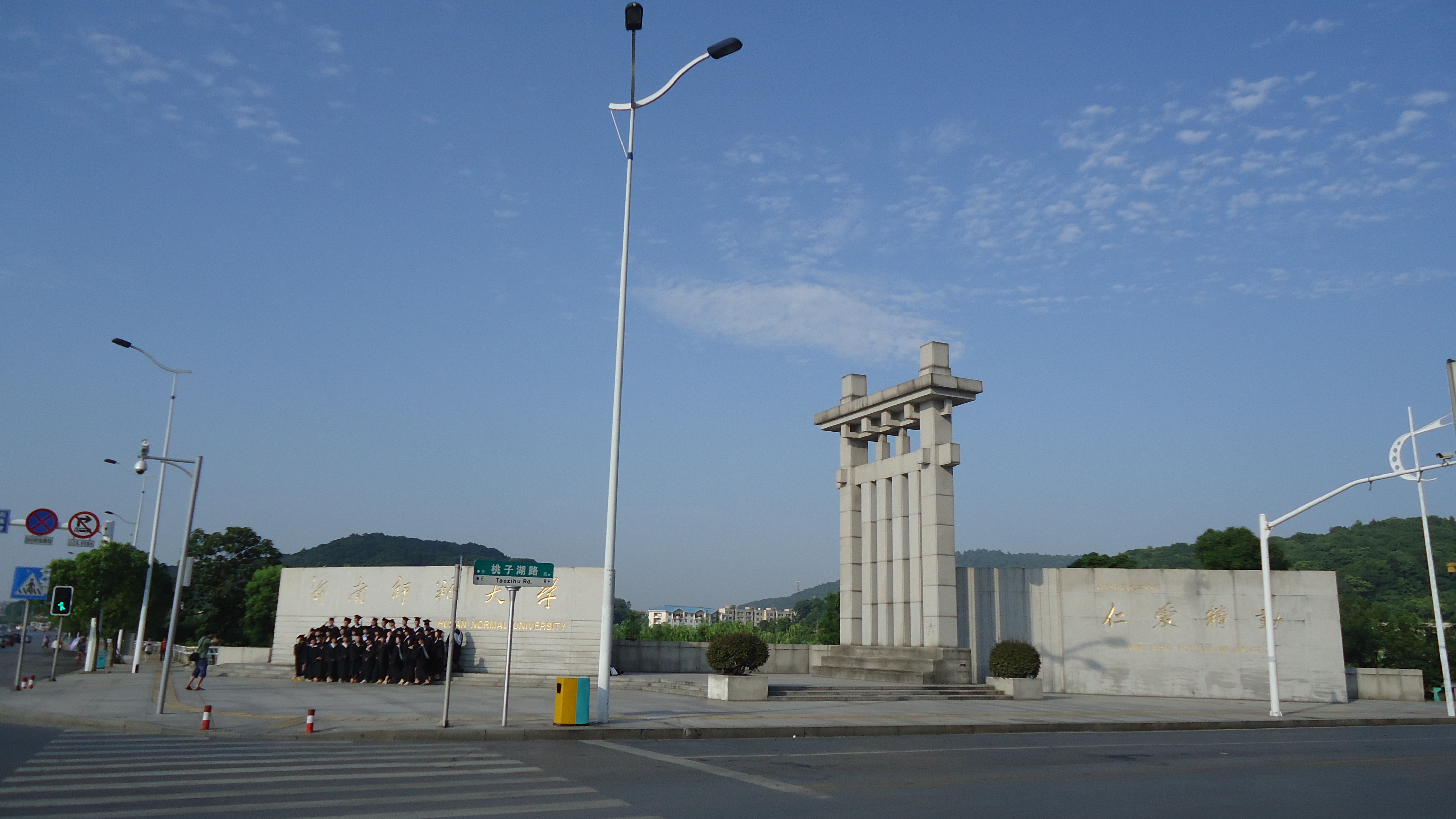 Hunan Normal University,founded in 1938, is a higher education institution located in Changsha, Hunan Province, People's Republic of China. The University is a national 211 Project university, one of the country's 100 key universities in the 21st century that enjoy priority in obtaining national funds.